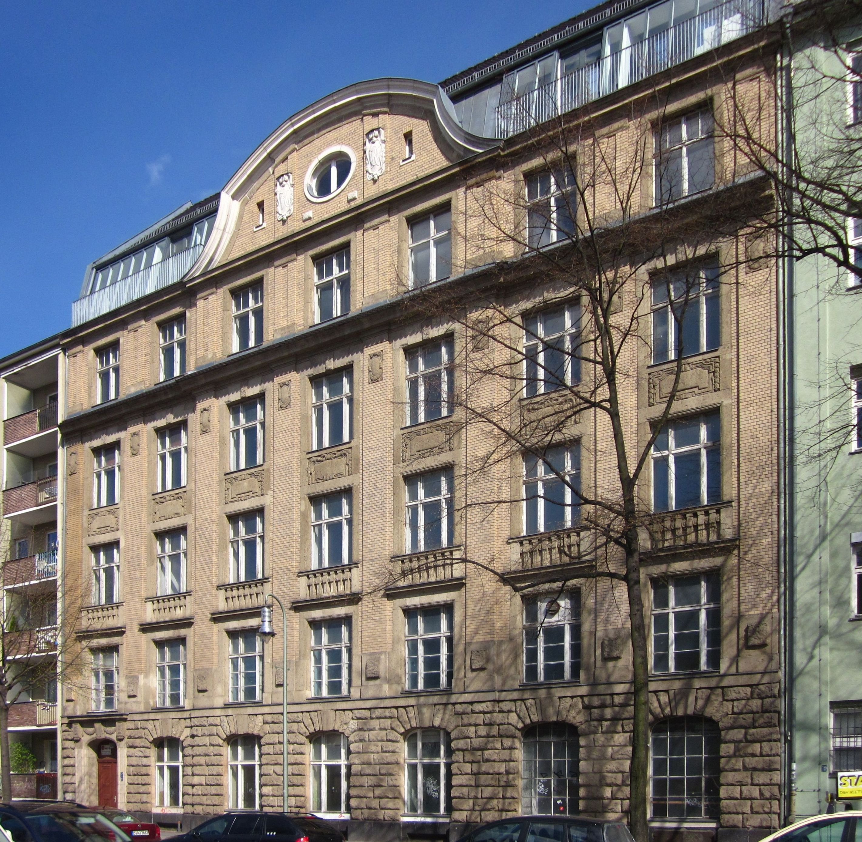 Former administrative building of the Orenstein & Koppel engineering company at Möckernstraße 120-120A in Berlin-Kreuzberg. It was built from 1909 to 1910 to a design by the architects Cremer & Wolffenstein who in 1913 also constructed the larger administrative building on neighboring Tempelhofer Ufer. The building has been designated a historic landmark.